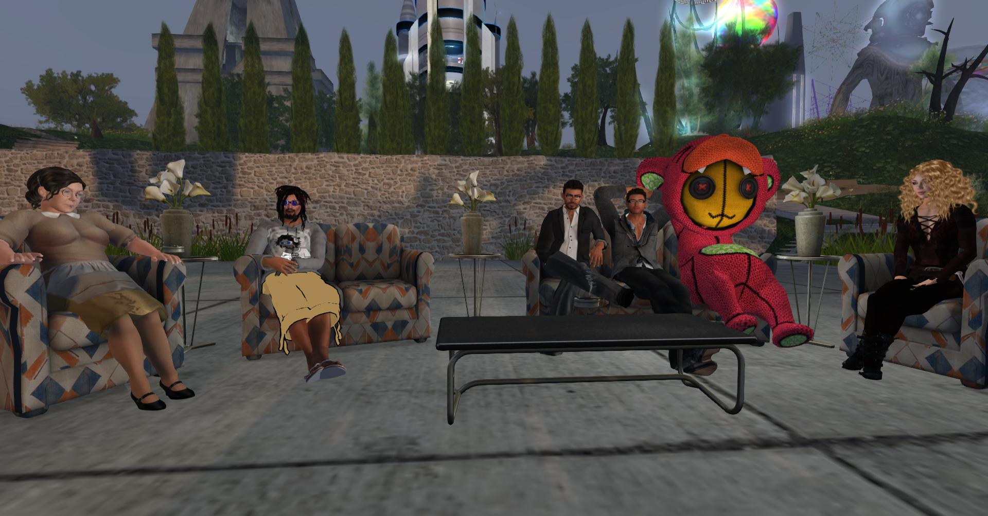 Live radio hour in Second Life with Draxtor Despres and Jo Yardley